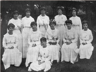 She is center, middle row. This was taken when she was awarded her "Prize of Excellence"